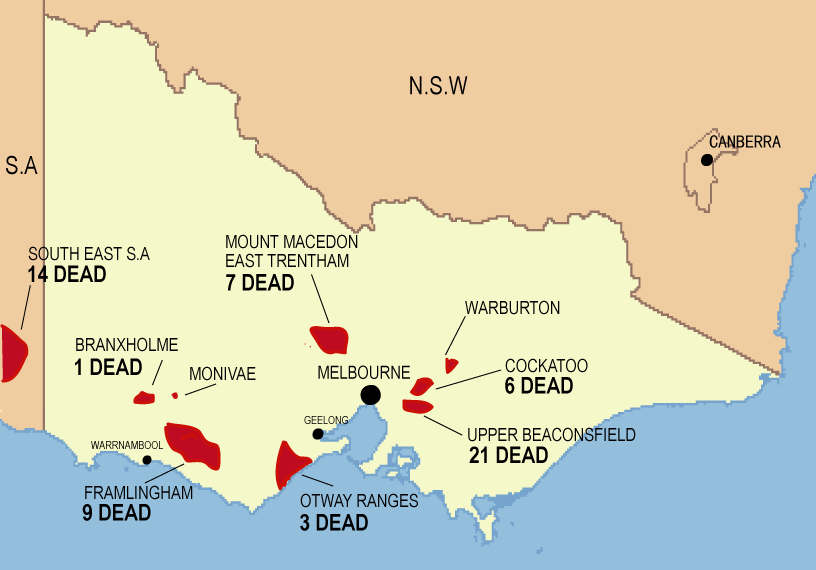 Indicative map of areas affected in Victoria by the 1983 Ash Wednesday fires